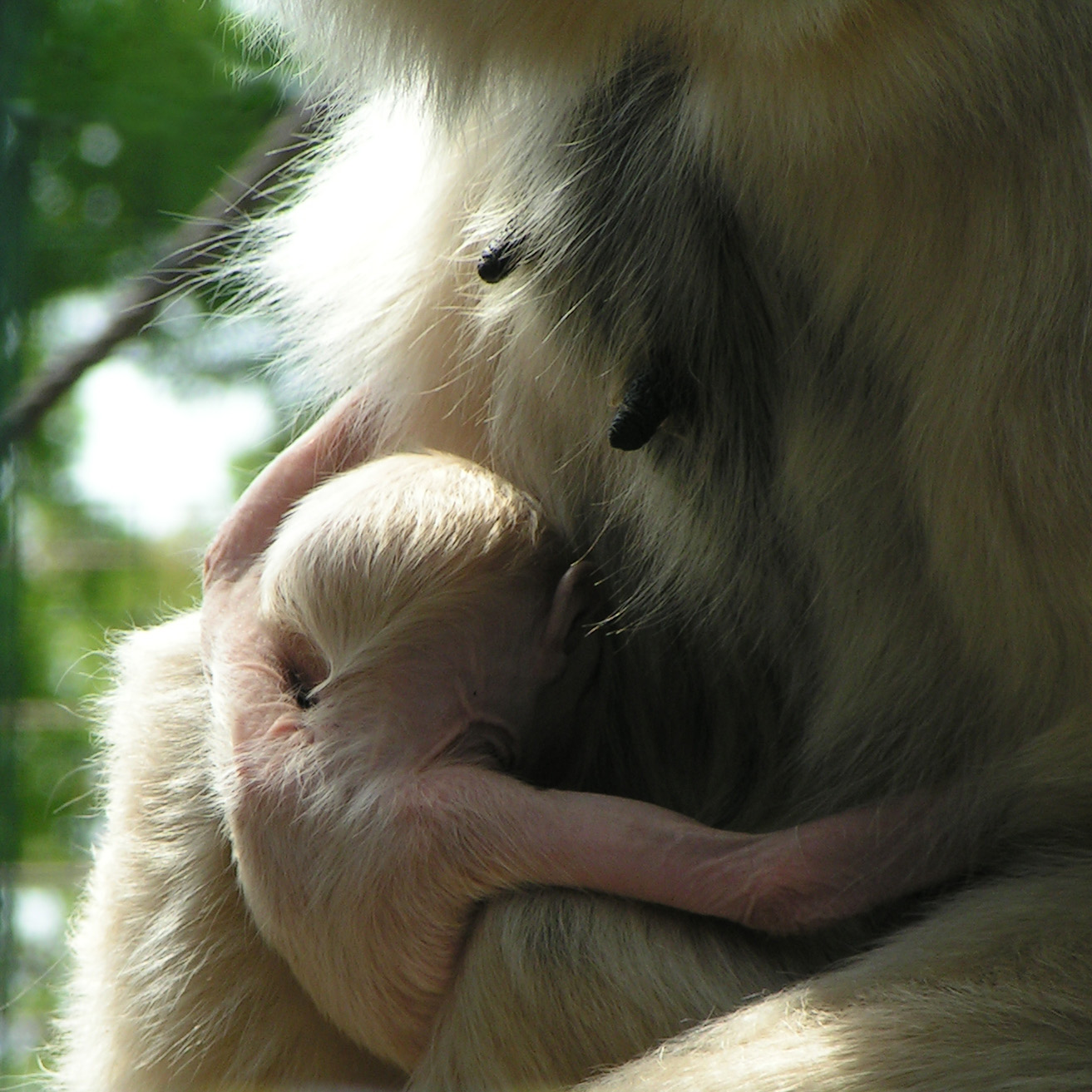 Four-day old baby of the Yellow-cheeked Gibbon (Nomascus gabriellae) in ZOO Chleby, Czech Republic.